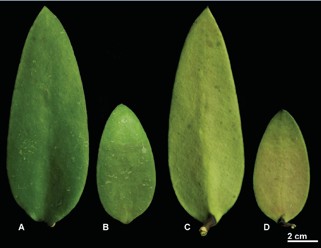 Hoya sumatrana S.Rahayu & Rodda 2019, Asclepiadoideae, Apocynaceae, from Rahayu & Rodda (2019: Fig. 4)